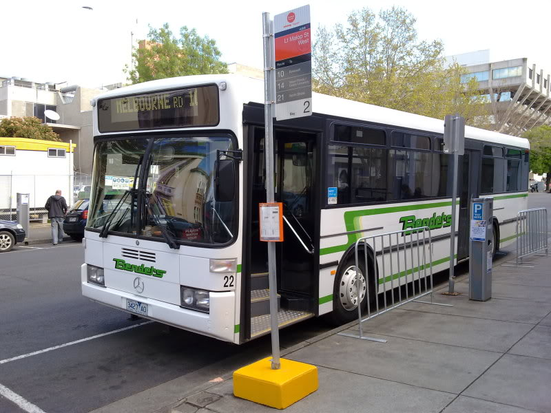 Benders Buslines #22 (Volgren bodied Mercedes-Benz O405, built 1993).